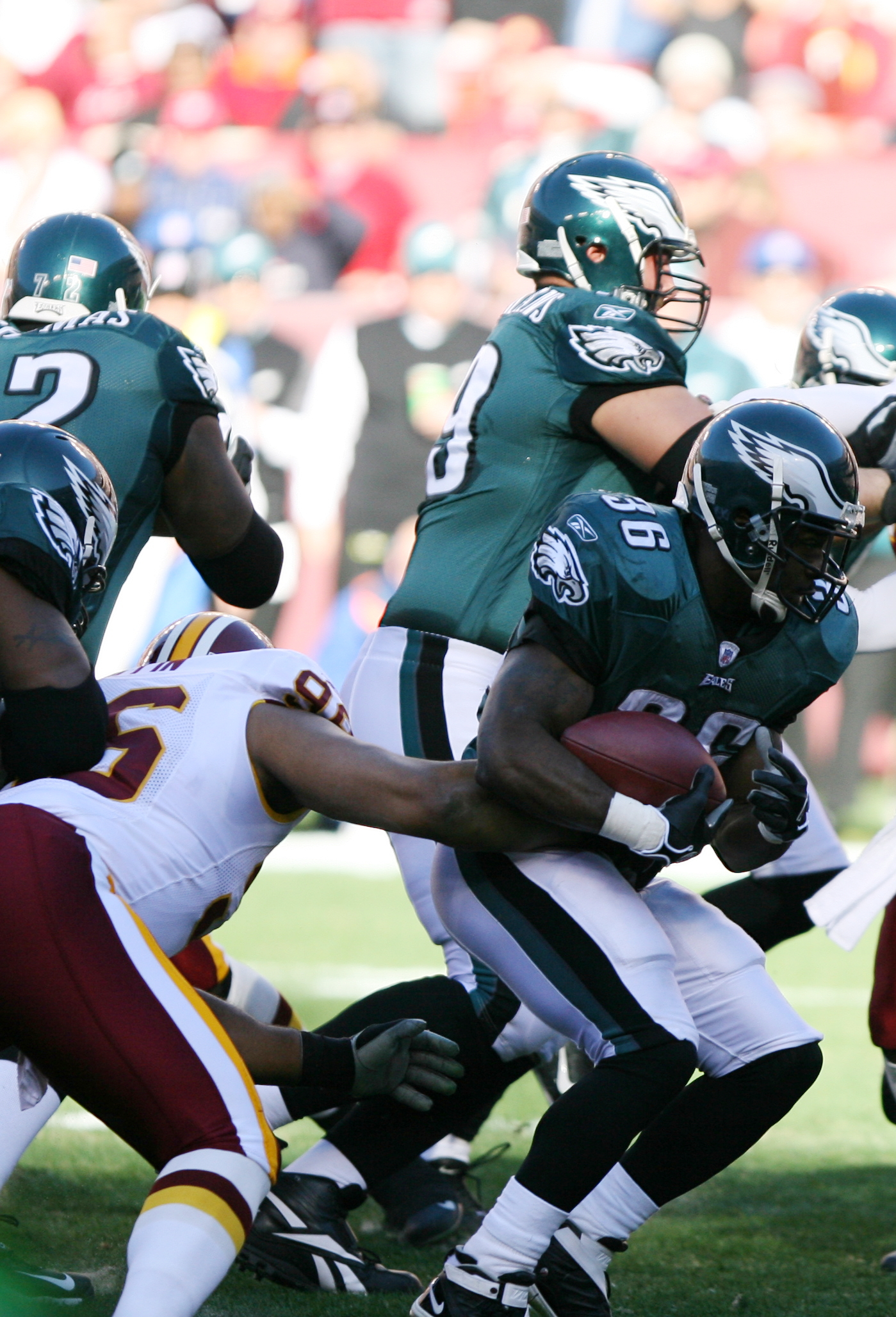 Brian Westbrook of the Philadelphia Eagles in a game against the Redskins